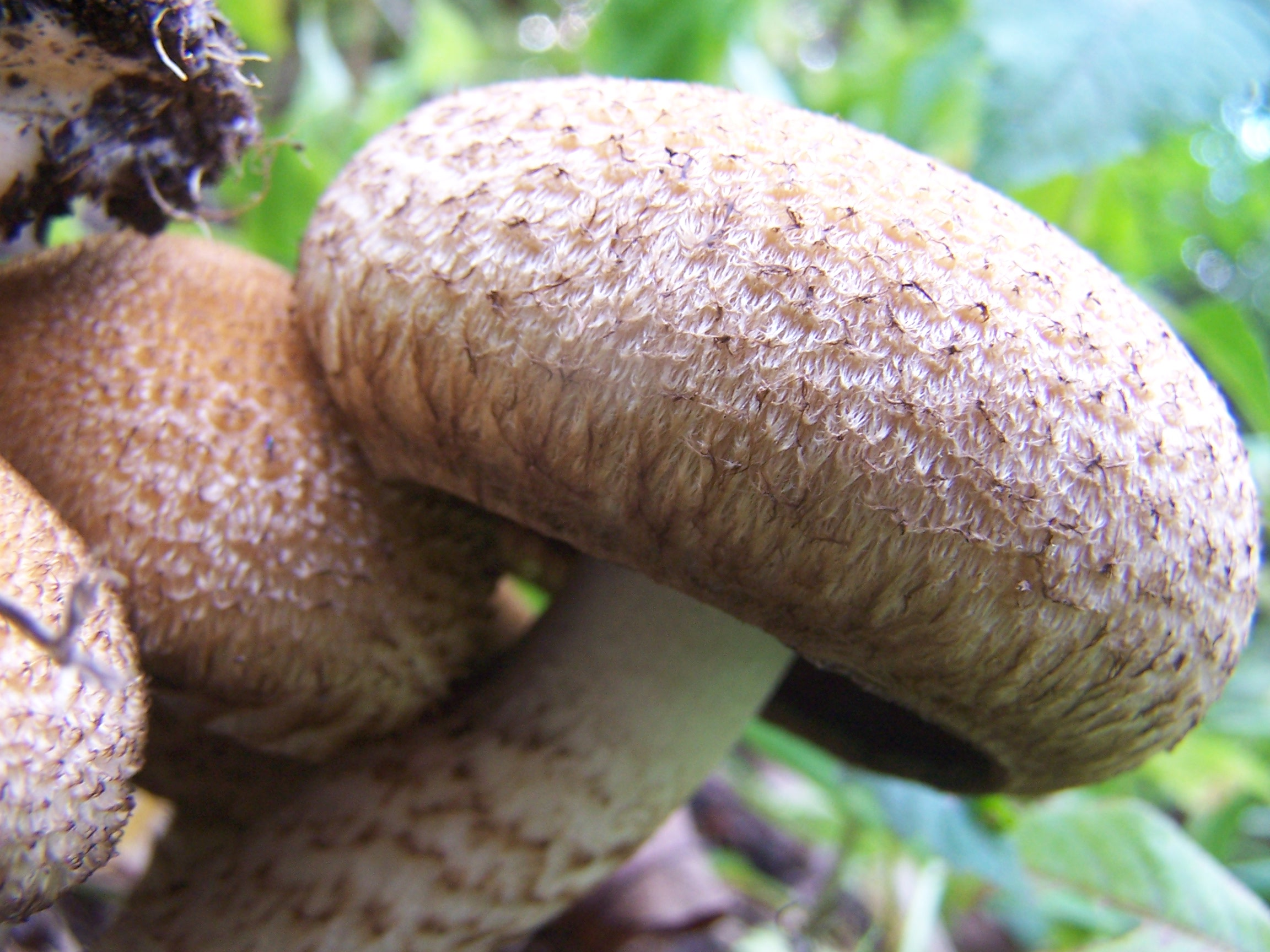 Fruit bodies of the agaric fungus Psathyrella echiniceps (G.F. Atk.) A.H. Sm. Photographed in Cap Sauers Holdings Nature Preserve, Cook Co., Illinois, USA.